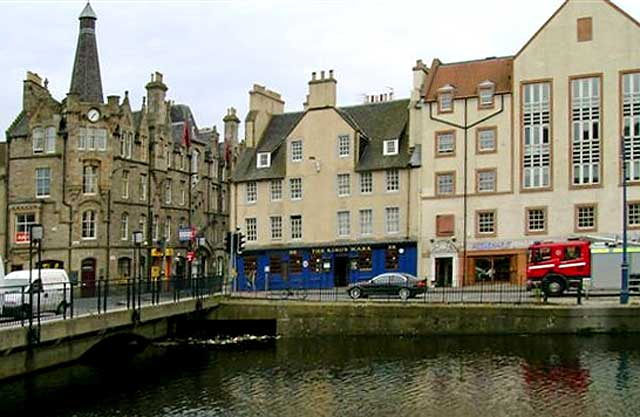 Leith